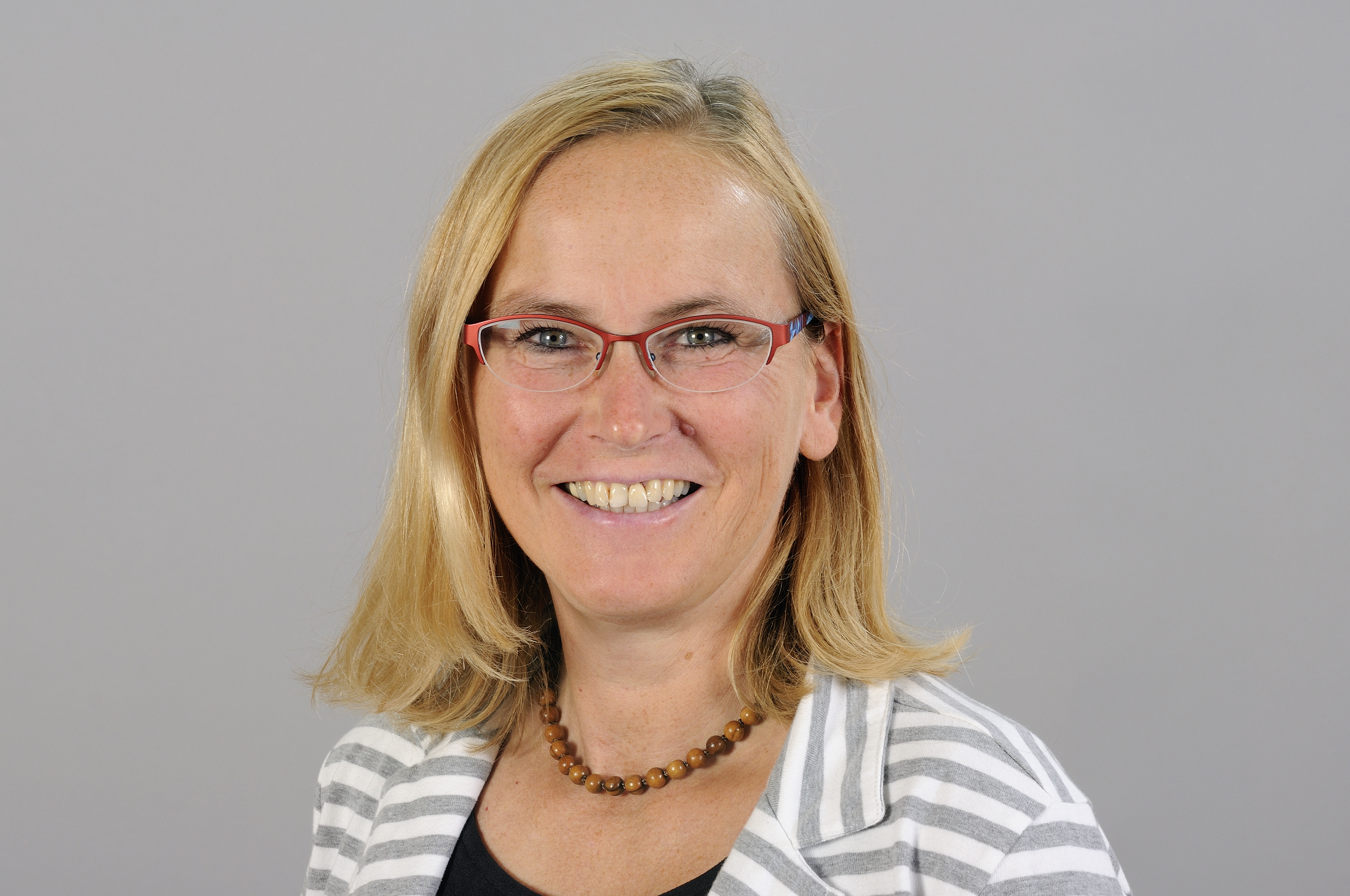 Jutta Matuschek, Berlin politician (Die Linke) and member of the Abgeordnetenhaus of Berlin (as of 2013).